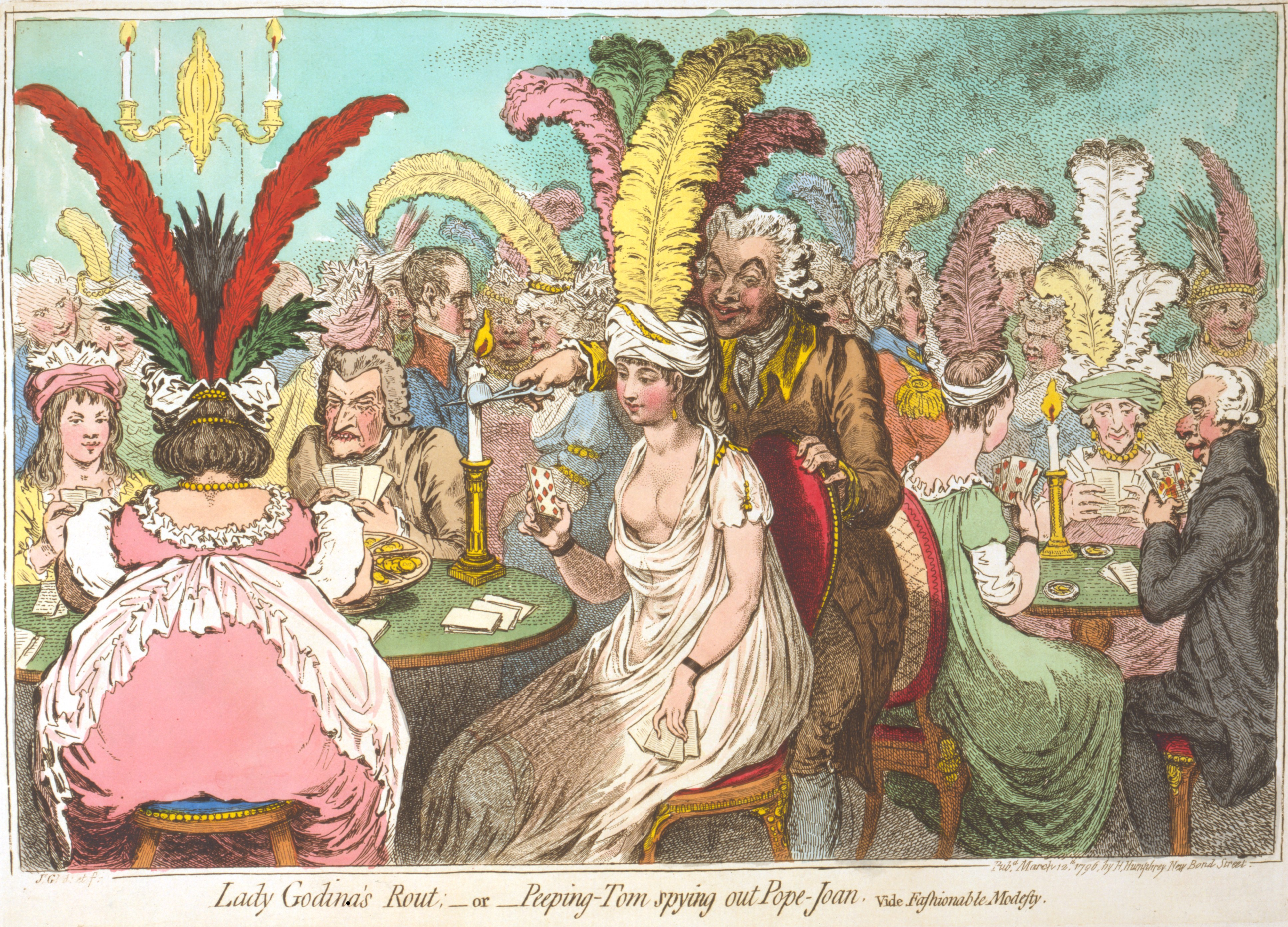 Lady Godina's Rout;—or—Peeping-Tom spying out Pope-Joan Js. Gy. d: et f: SUMMARY: A fashionable crowd playing cards at two tables. In the foreground, four people playing the game Pope-Joan. One of the women is wearing a loose fitting semi-transparent dress with her breasts exposed. Behind her, peering down her dress, is a man who is about to cut off a candle due to his distracted state. Rear view of a fat woman dominates the left side of the picture. MEDIUM: 1 print : etching, hand-colored. CREATED/PUBLISHED: [London] : H. Humphrey, 1796 March 12th. According to the National Portrait Gallery of the UK, the caricature refers to Lady Georgiana Gordon (1781–1853), Duchess of Bedford from 1803 until her death; the title and the lecherous servant refer to Lady Godiva. Pope-Joan is a card game; Lady "Godina" is holding the diamond nine, which is called the "Pope" in that game. The man sitting on Lady "Godina"'s right is John Sneyd (1763–1835); the fat woman sitting on her left is Albinia, Countess of Buckinghamshire (died 1816).